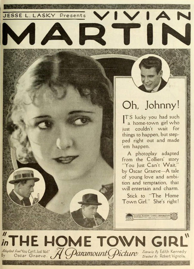 Advertisement in Moving Picture World, May 1919 for the American comedy film The Home Town Girl (1919).